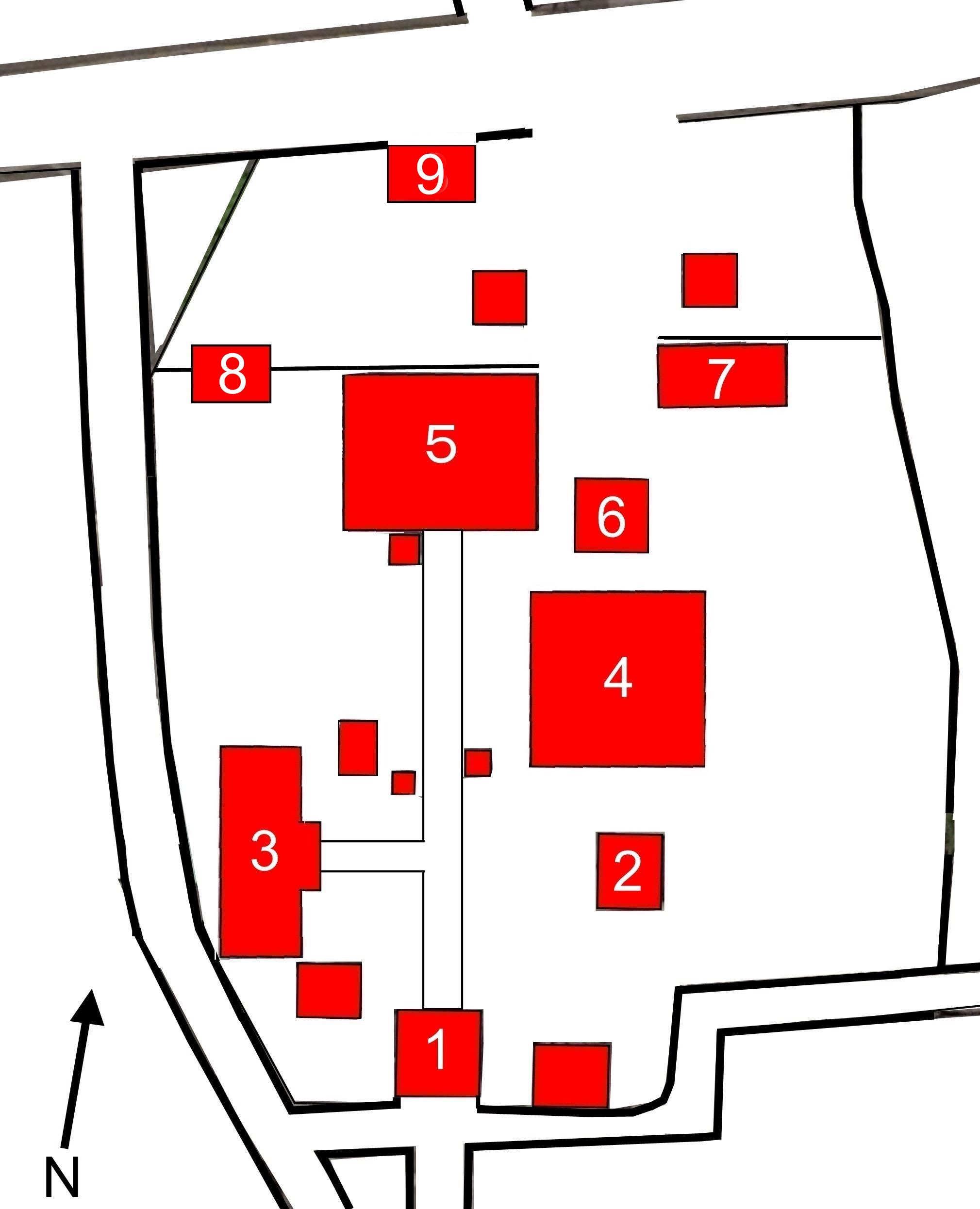 Layout of Doryuji Temple Provice Kagawa, Japan